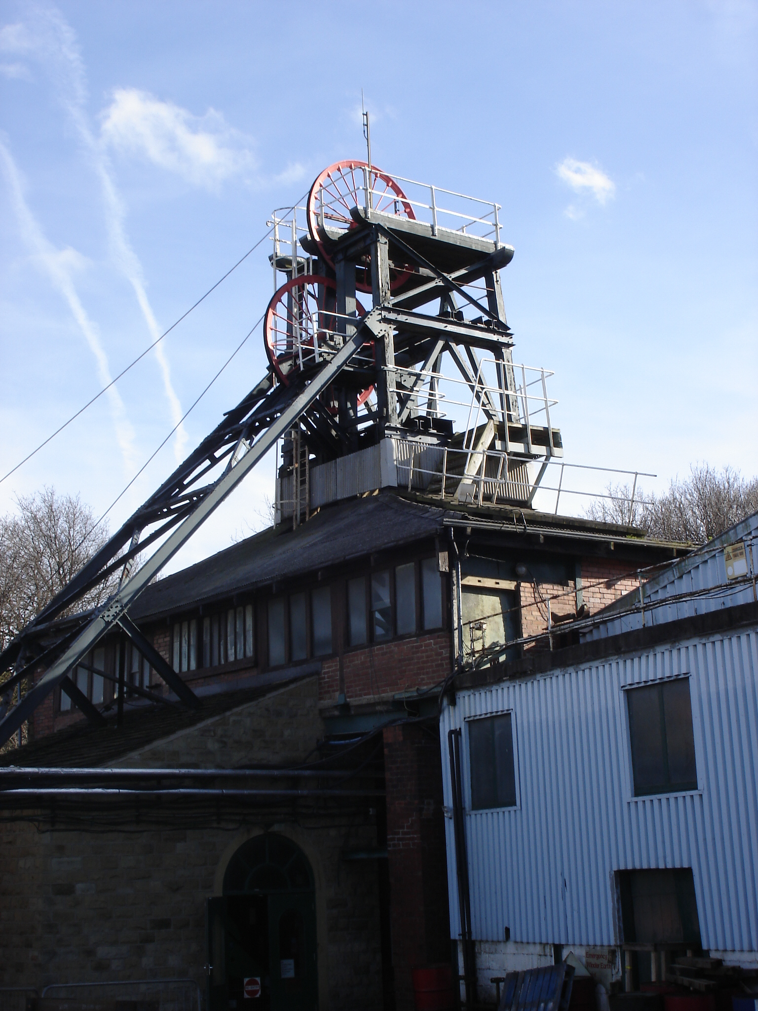 Headstock at National Coal Mining Museum (Caphouse Colliery). March 2011.